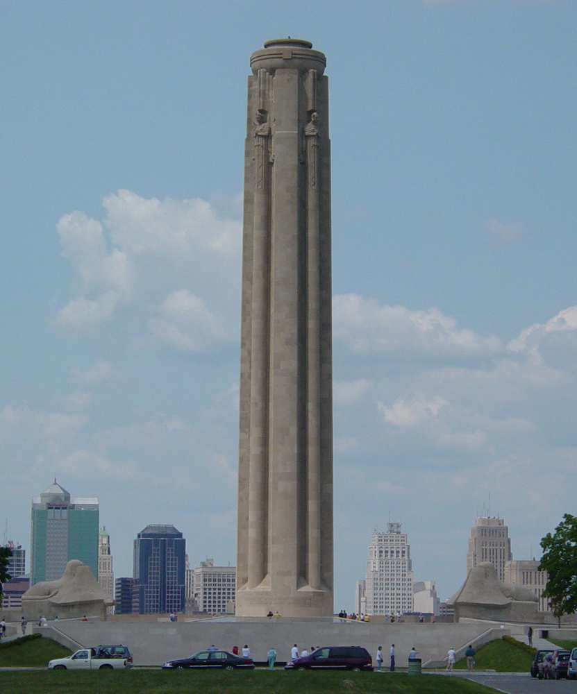 Image:Libertymemorialkcmd2002.jpg by Cookiecaper